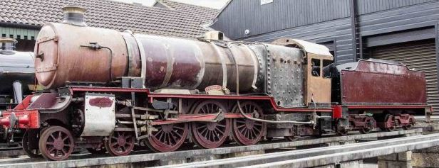 Number 1003 "Western Queen" In the Yard